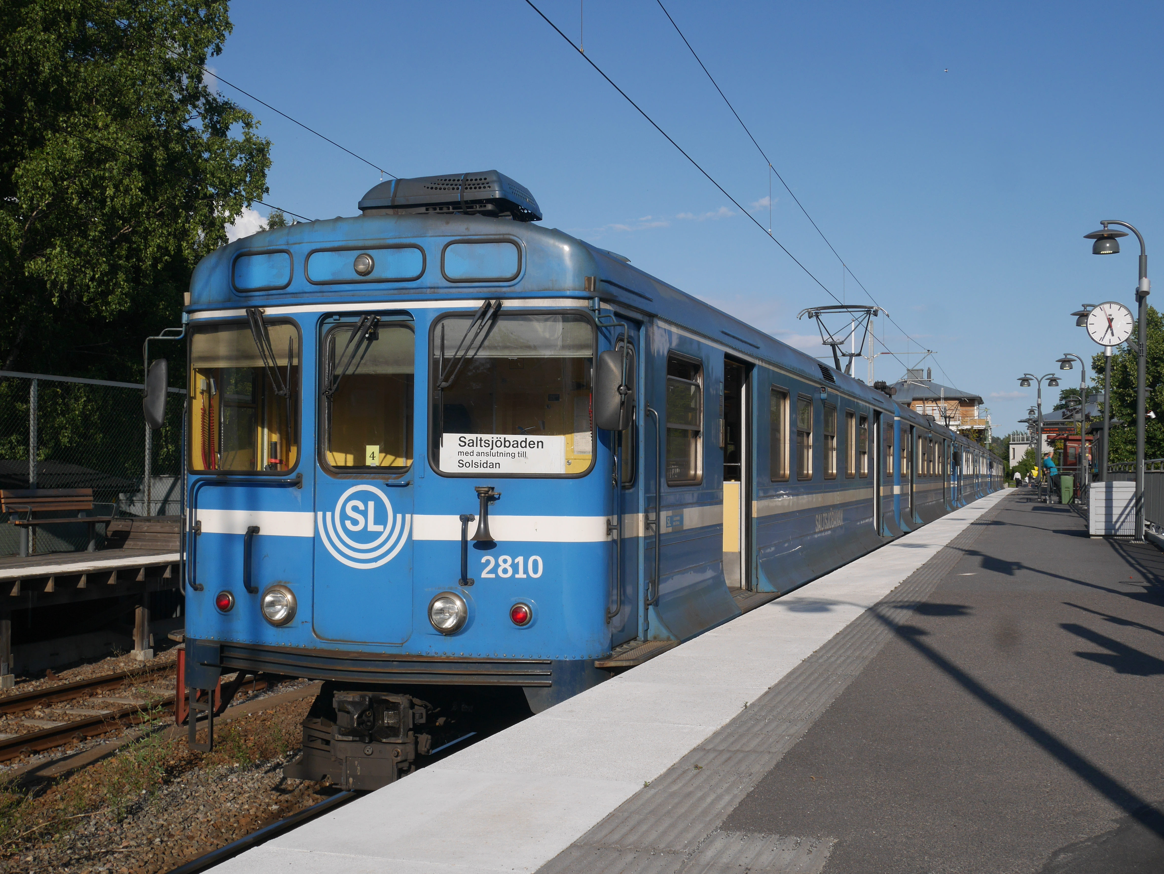 A Saltsjöbanan train on line 25 from Stockholm-Henriksdal station has arrived at Saltsjöbaden station.